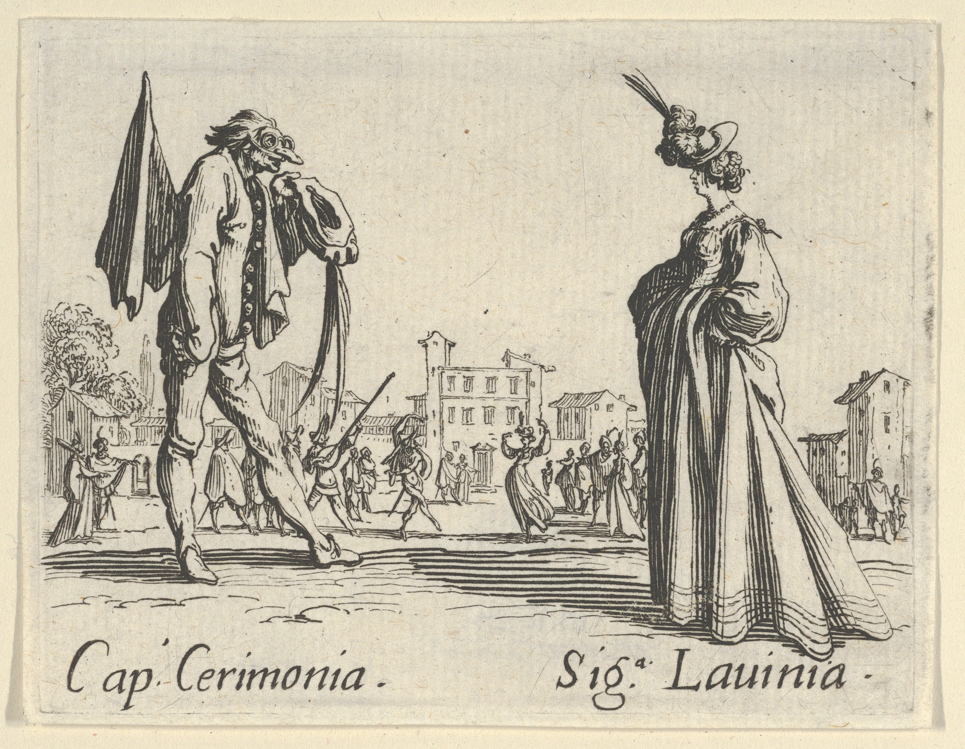 Print; Prints